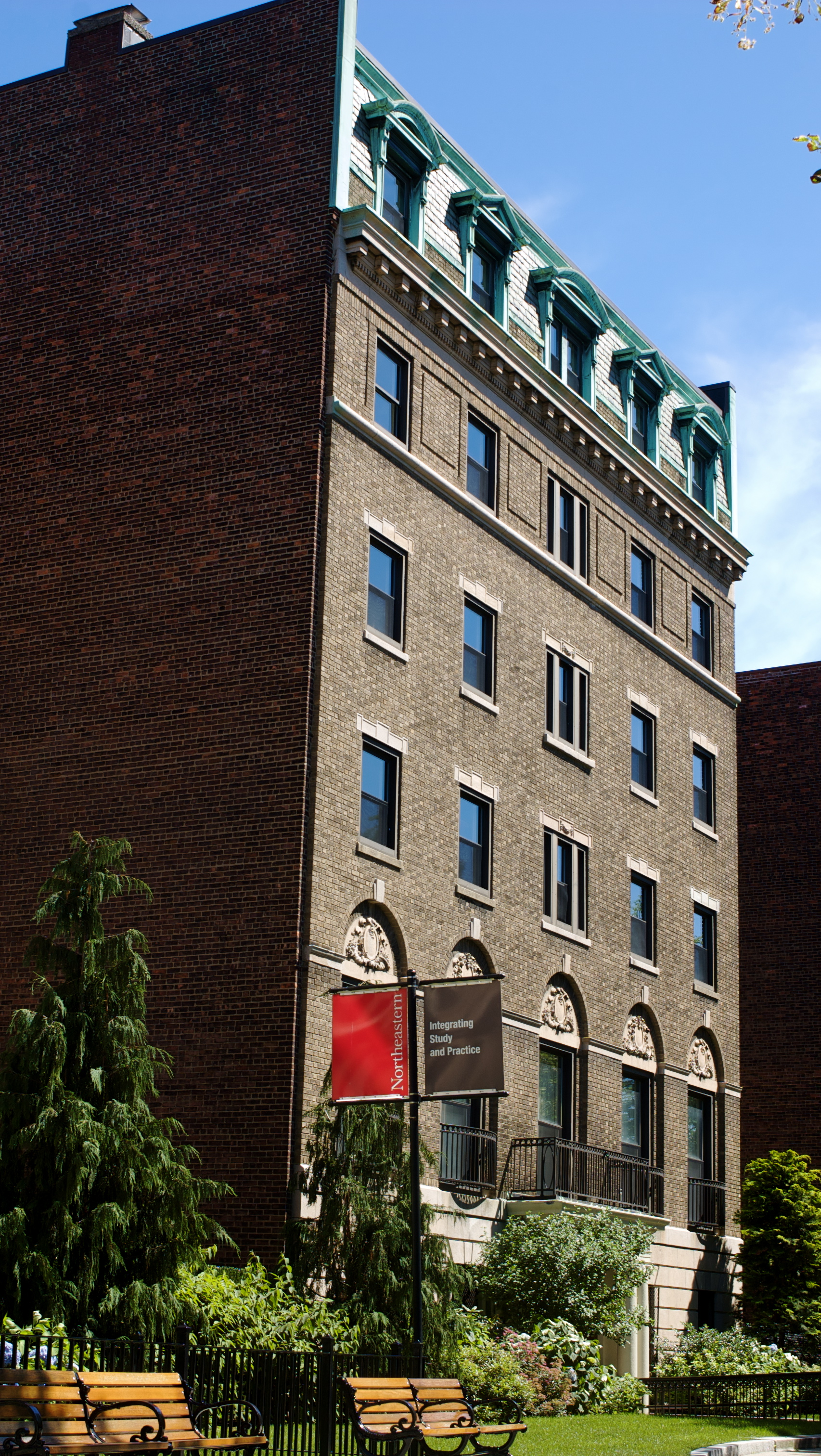 The Students House at 96 Fenway in Boston, Massachusetts, a site on the National Register of Historic Places. The building is presently Kerr Hall at Northeastern University.